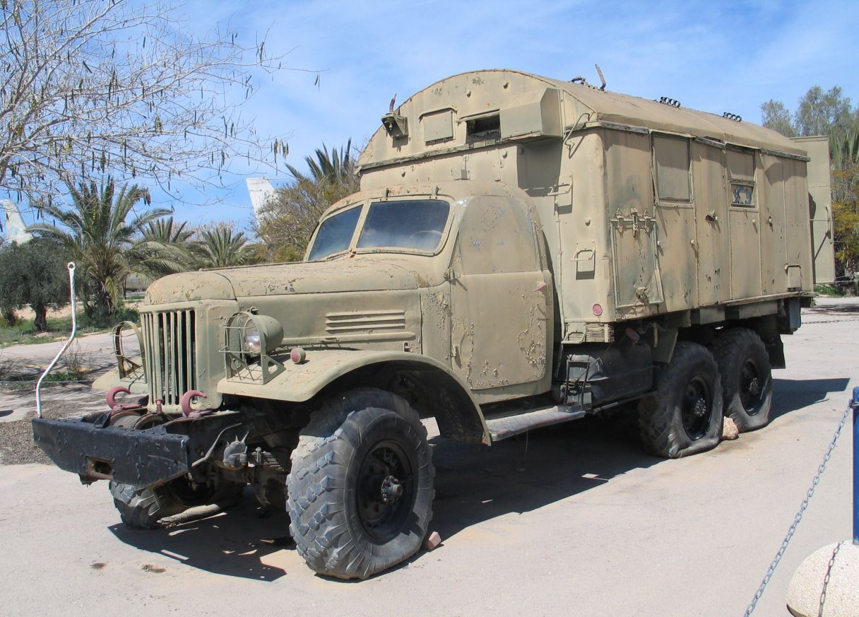 Description: Zil 157 Truck at Muzeyon Heyl ha-Avir, Hatzerim airbase, Israel. 2006. Source: Photo by me, User:Bukvoed.